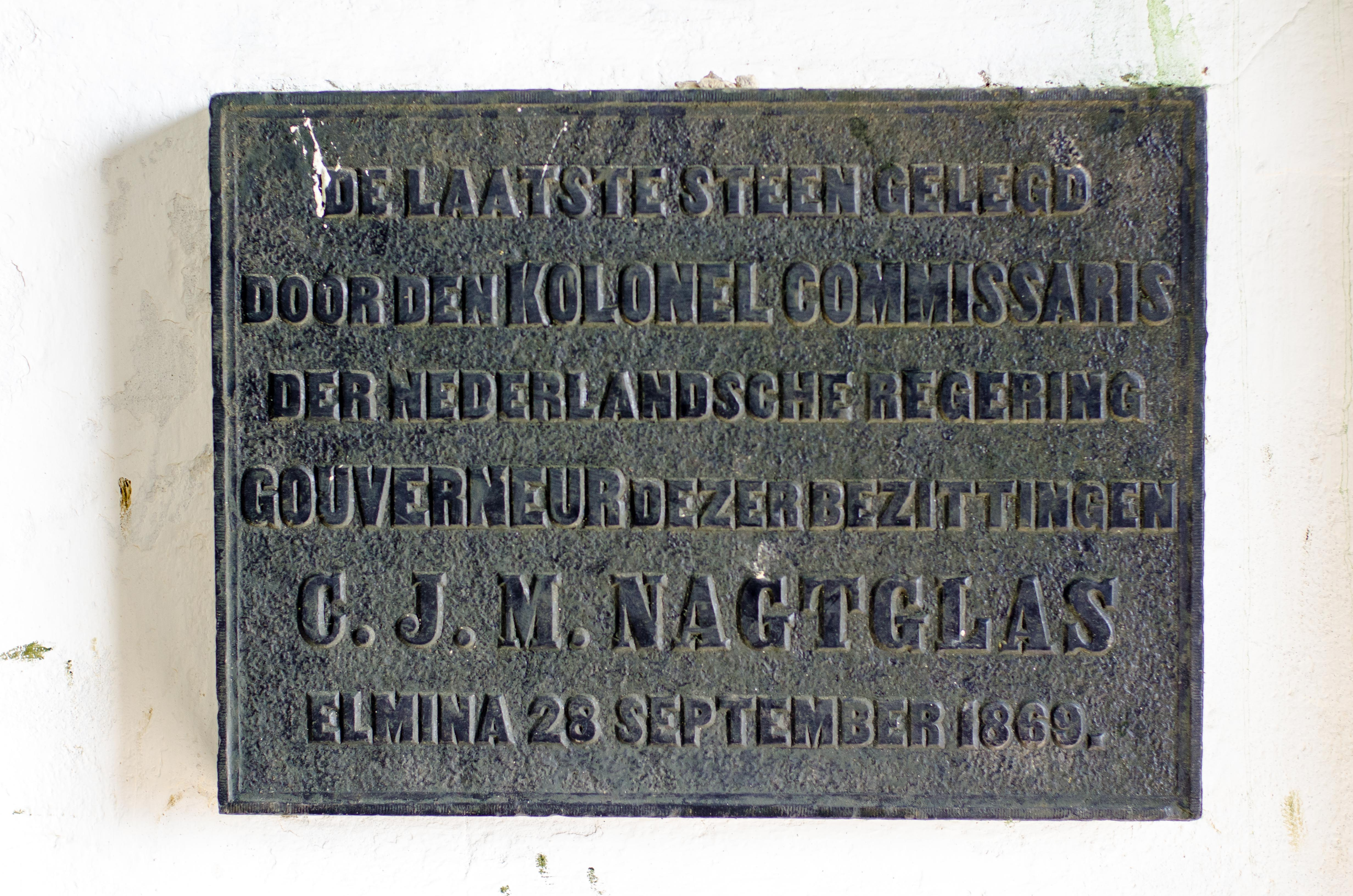 Elmina Castle Museum located in the first church built in Gold Coast now Ghana in the Elmina Castle.